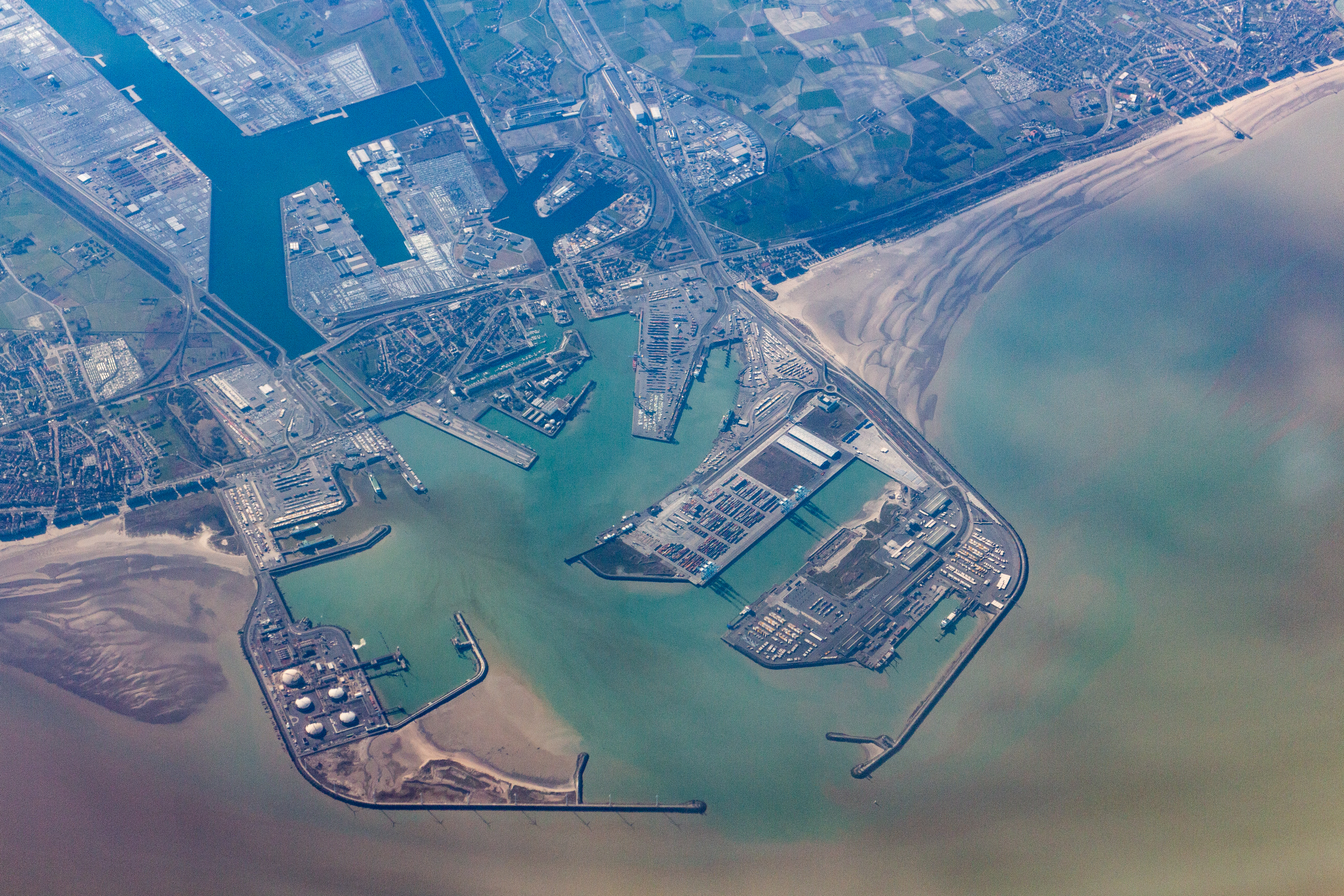 Port of Brugge (Zeebrugge)